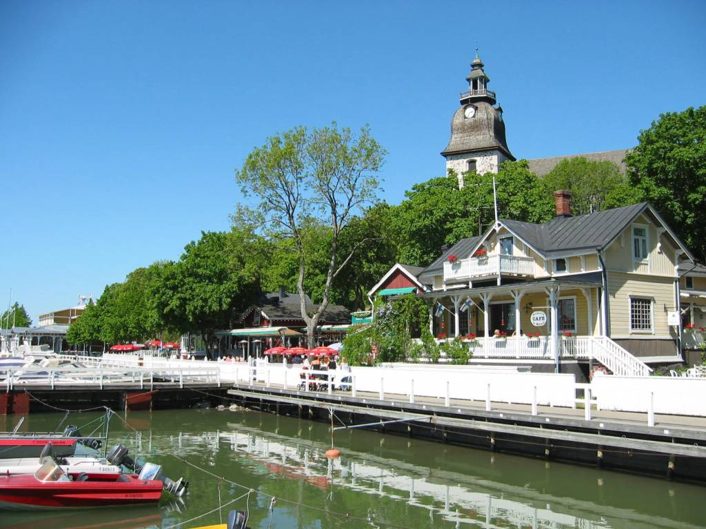 Church of Naantali and Old Town at Naantali, Finland